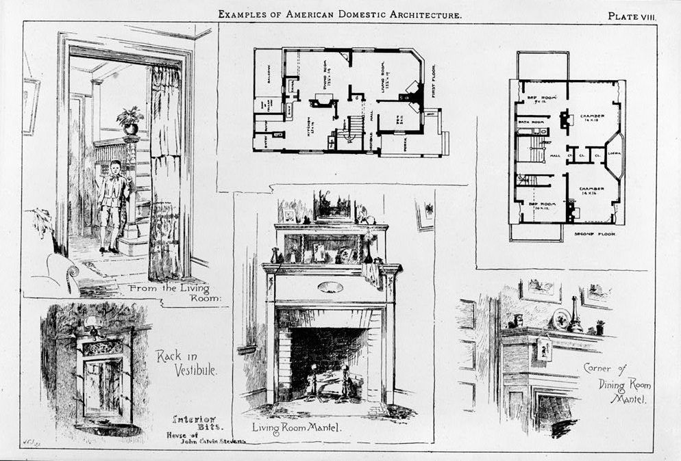 "Interior Bits. House of John Calvin Stevens." Albert Cobb and John Calvin Stevens, Examples of American Domestic Architecture (1889), plate VIII.